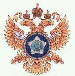 Seal of the SVR, the Russian Foreign Intelligence Agency, since October 2009